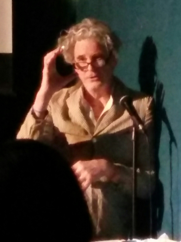 Craig Baldwin presenting his "Incredibly Strange Music" program at the Roxie Theater in San Francisco, California, United States